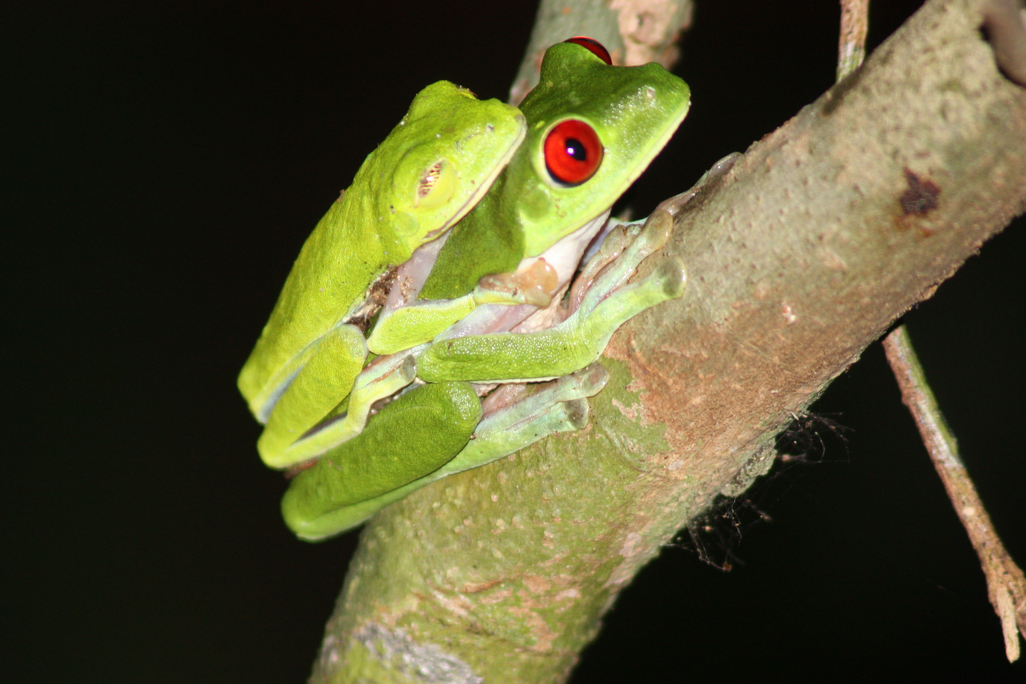 Red-eyed tree frog (Agalychnis callidryas) in axillary amplexus at night in Lapa Rios, the OSA Peninsula, Costa Rica